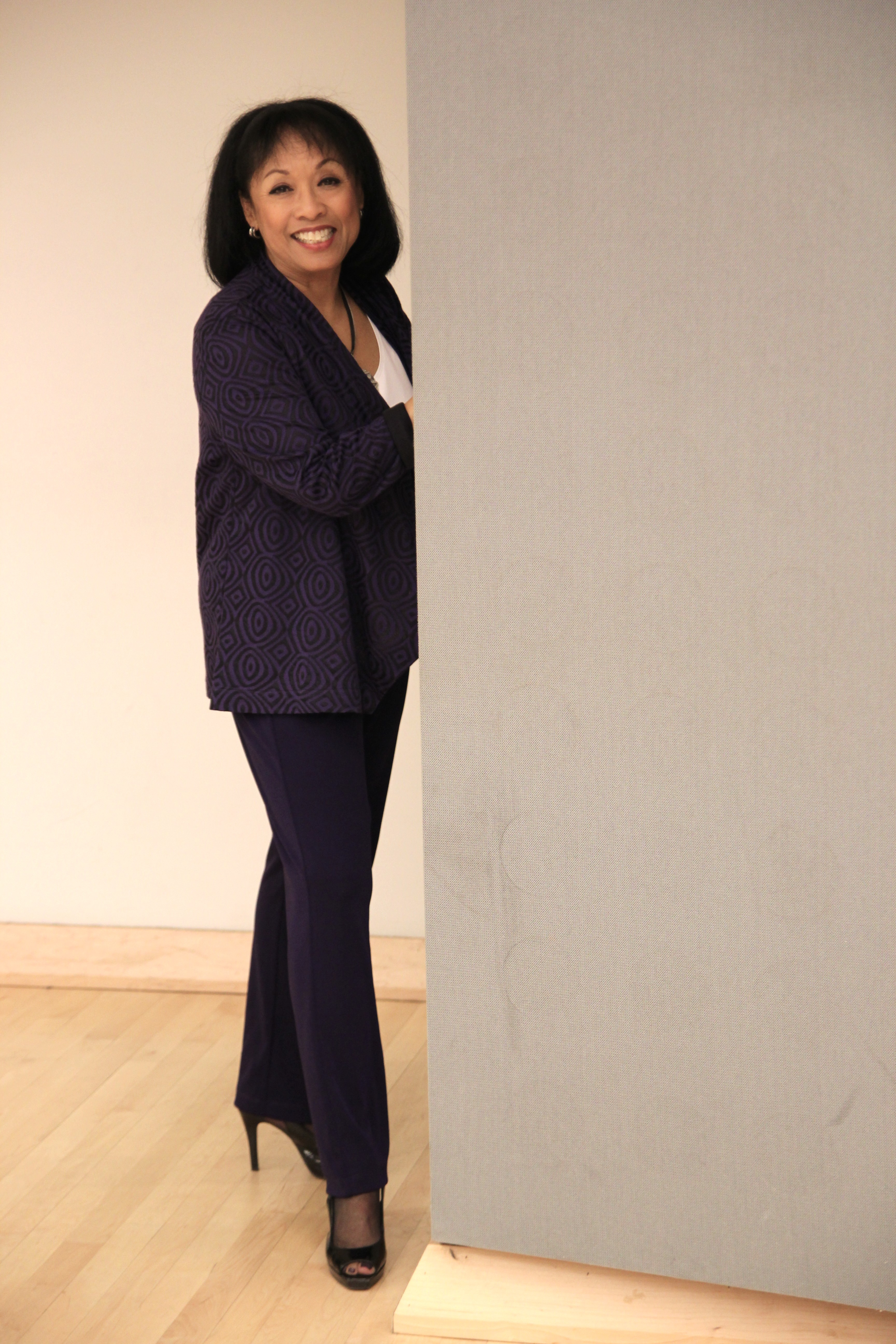 Baayork Lee received the 2014 Paul Robeson Citation Award, presented by Actors’ Equity Foundation, at the beginning of AEA’s membership meeting o October 10, 2014, at the Actors Equity Building in New York.